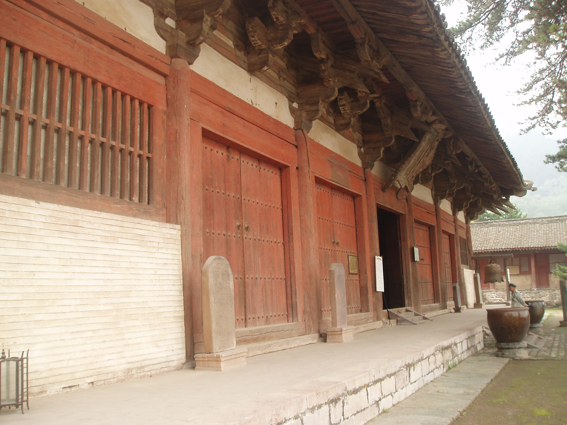 The front of The Grand East Hall of the Foguang Temple in Shanxi, China. Architecture of the Tang Dynasty.